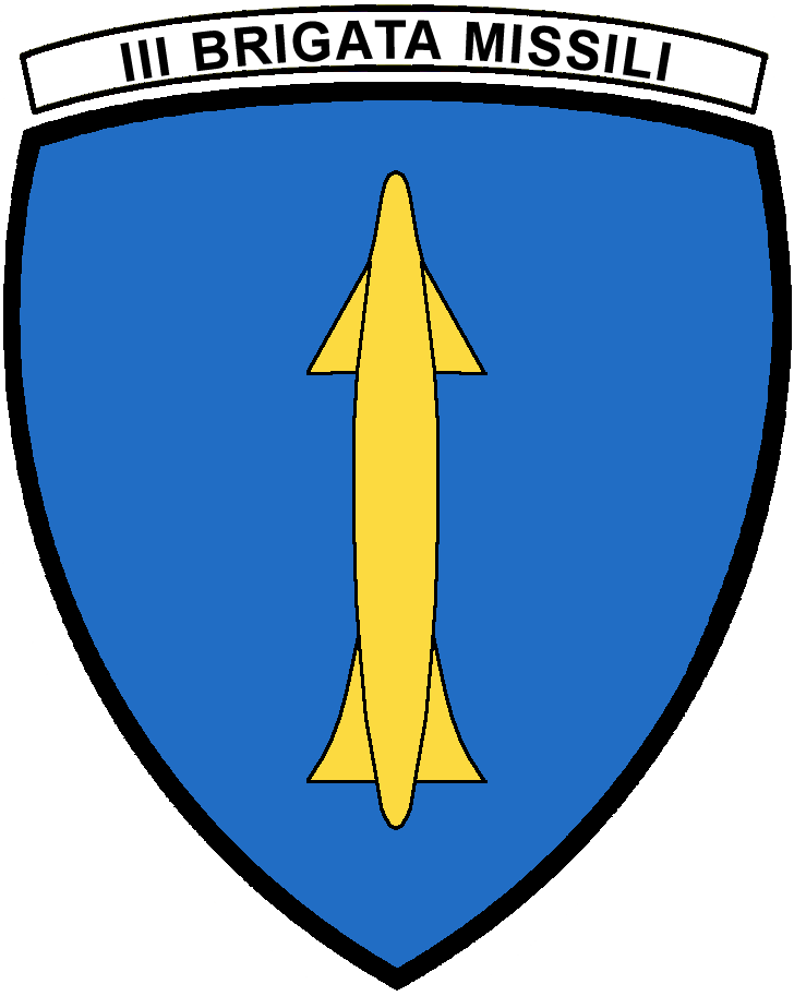 Coat of Arms of the Italian Army III Missile Brigade Aquileia after 1975